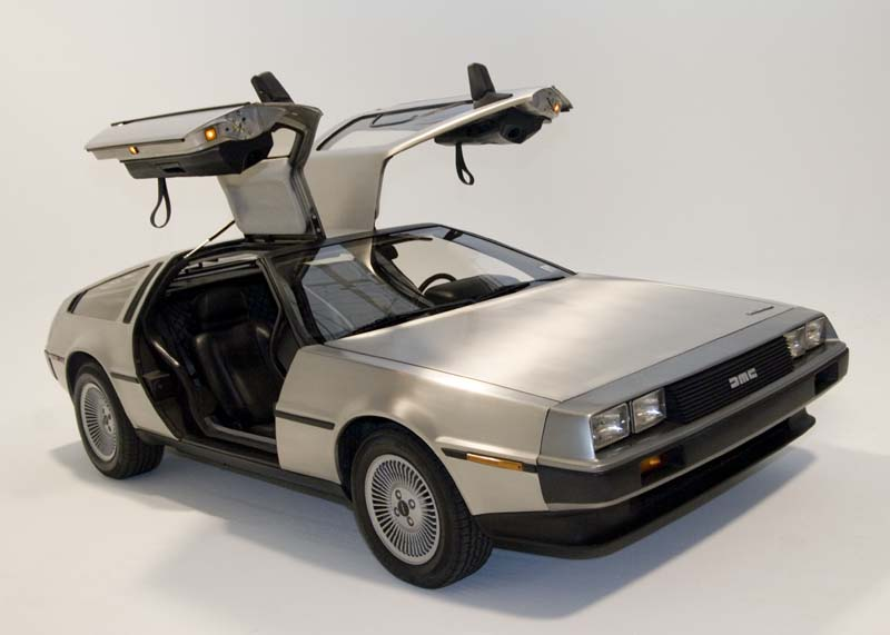 DeLorean with doors open.